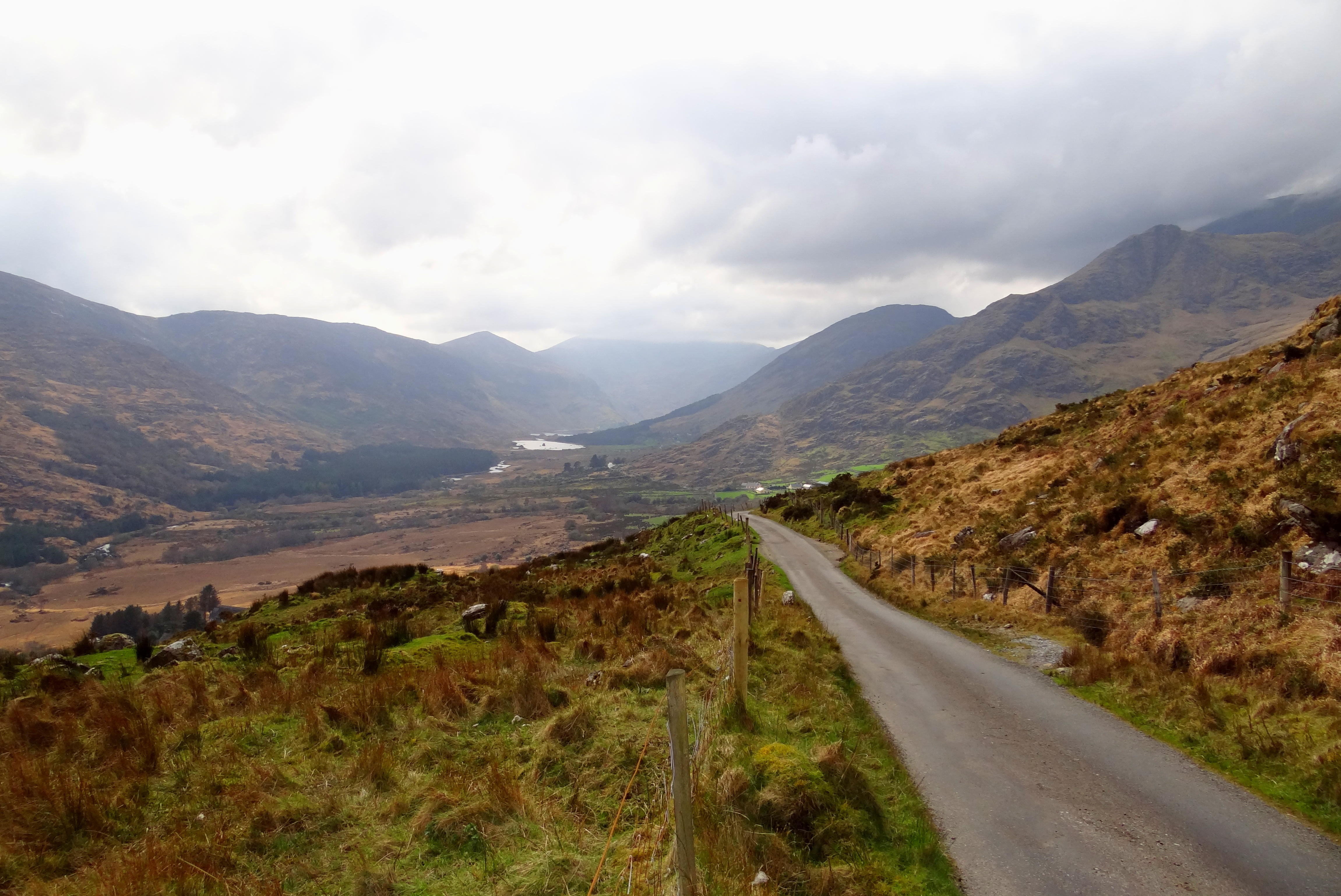 The Black Valley in early spring, as seen coming down from the Gap of Dunloe.